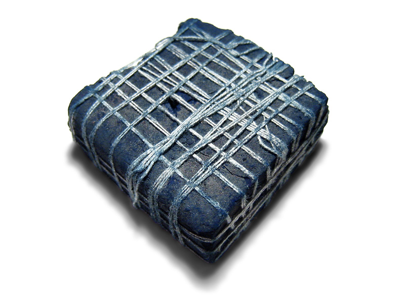 Piece of indigo plant dye from India, c. 2.5 inches (6.35 cm) square.